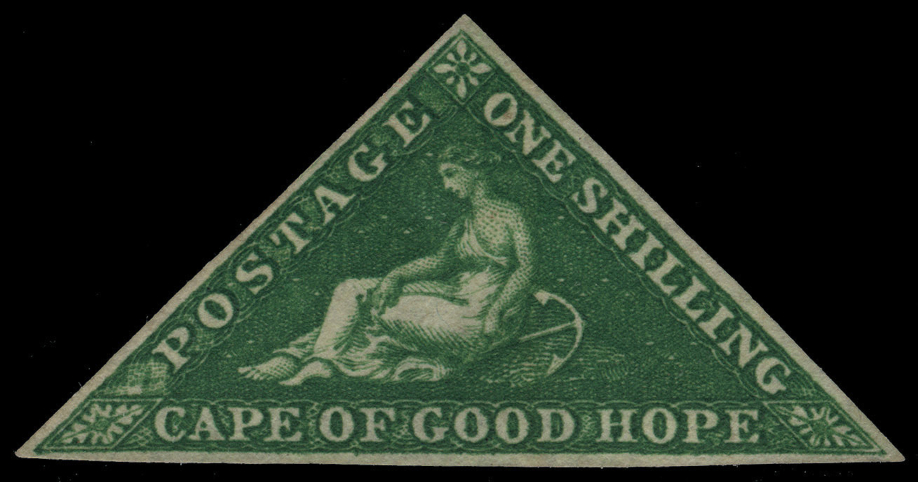 Cape of Good Hope triangular postage stamp, bright yellow-green, 1 shilling, 1858. SG N°8